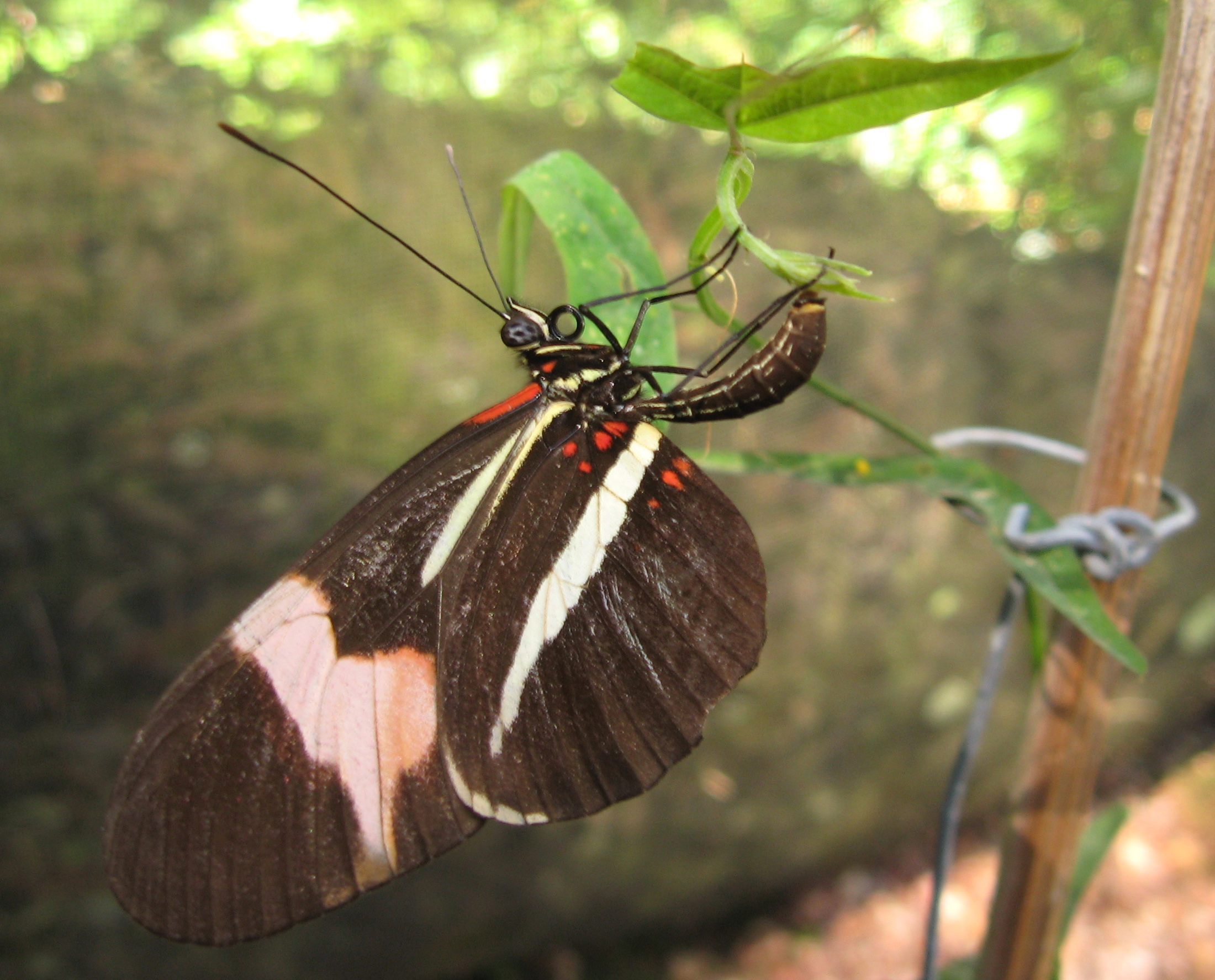 Heliconius erato butterfly laying an egg on a Passiflora misera tip.